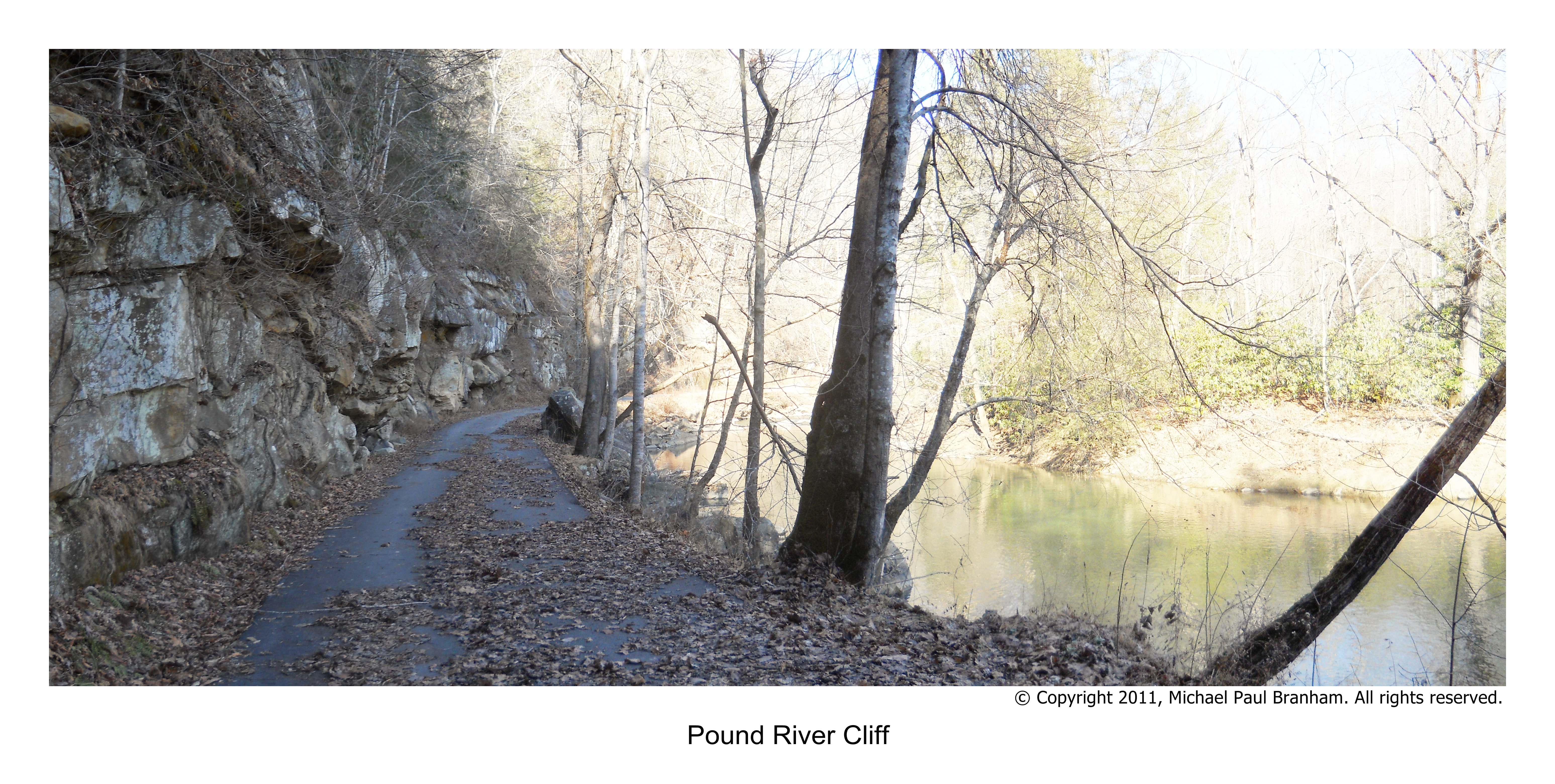 This is a section of road in Dickenson County VA along the Pound River leading to the pound river campground.